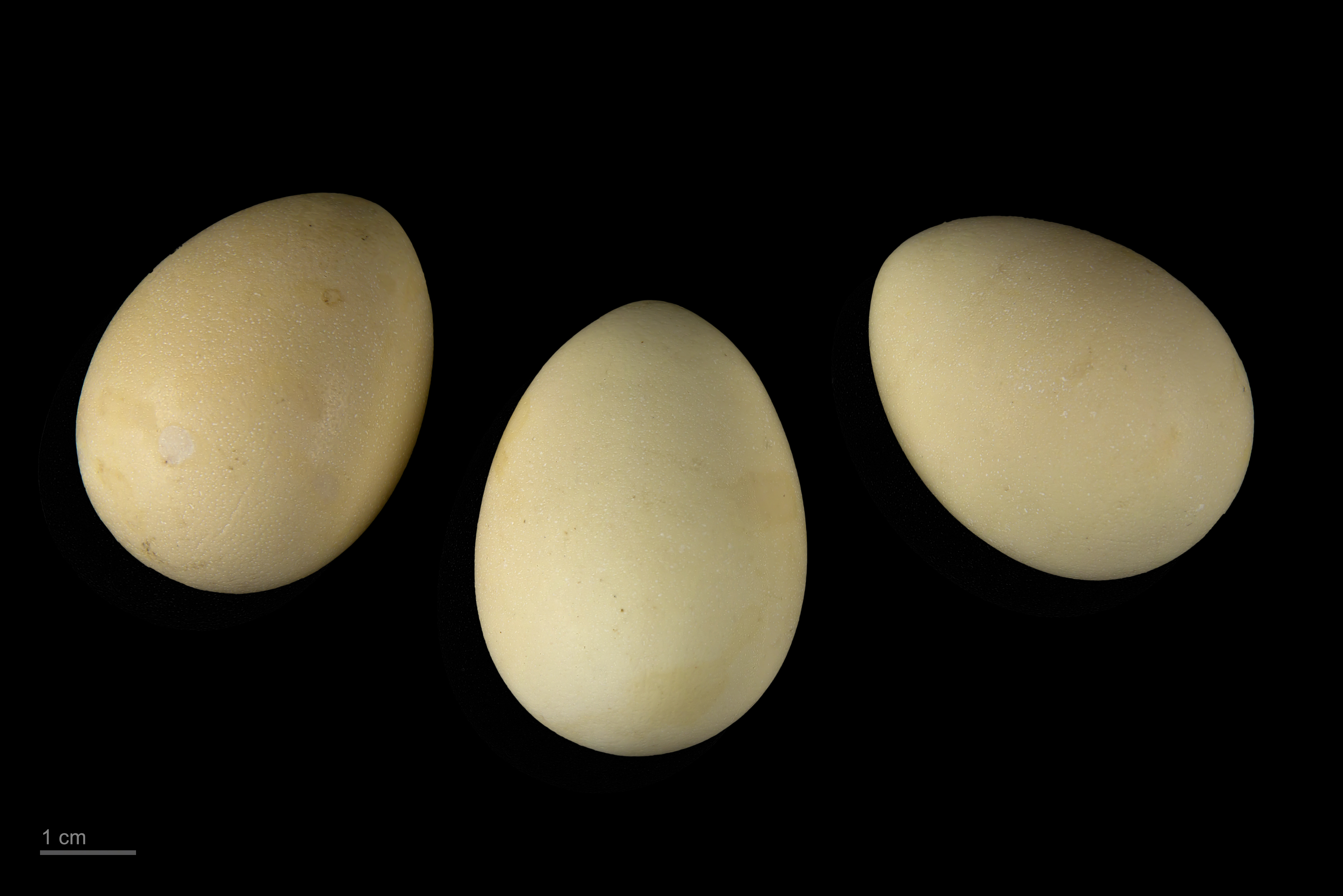 Egg of double-spurred francolin (ayesha) Collection of Jacques Perrin de Brichambaut.